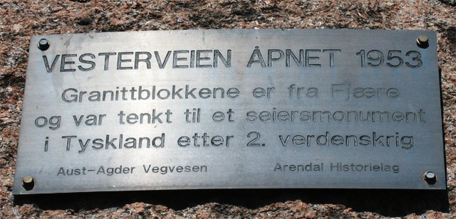 Label on the vesterveien road in Arendal. Inscription: Westroad opened in 1953 Granite blocks are from the stone quarry Fjære and were destined for a German victory monument after 2nd world war